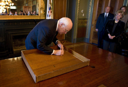 Vice President Dick Cheney signs the inside of the top drawer of his desk in the Vice President's Ceremonial Office Monday, Jan. 12, 2009, at the Eisenhower Executive Office Building in Washington, D.C. The desk, constructed in 1902 and first used by President Theodore Roosevelt, has been signed by various presidents and vice presidents since the 1940s. Mrs. Lynne Cheney is seen at right.